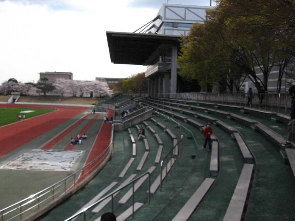 Musashino Sports Complex and Musashino Sports Fields Stand.